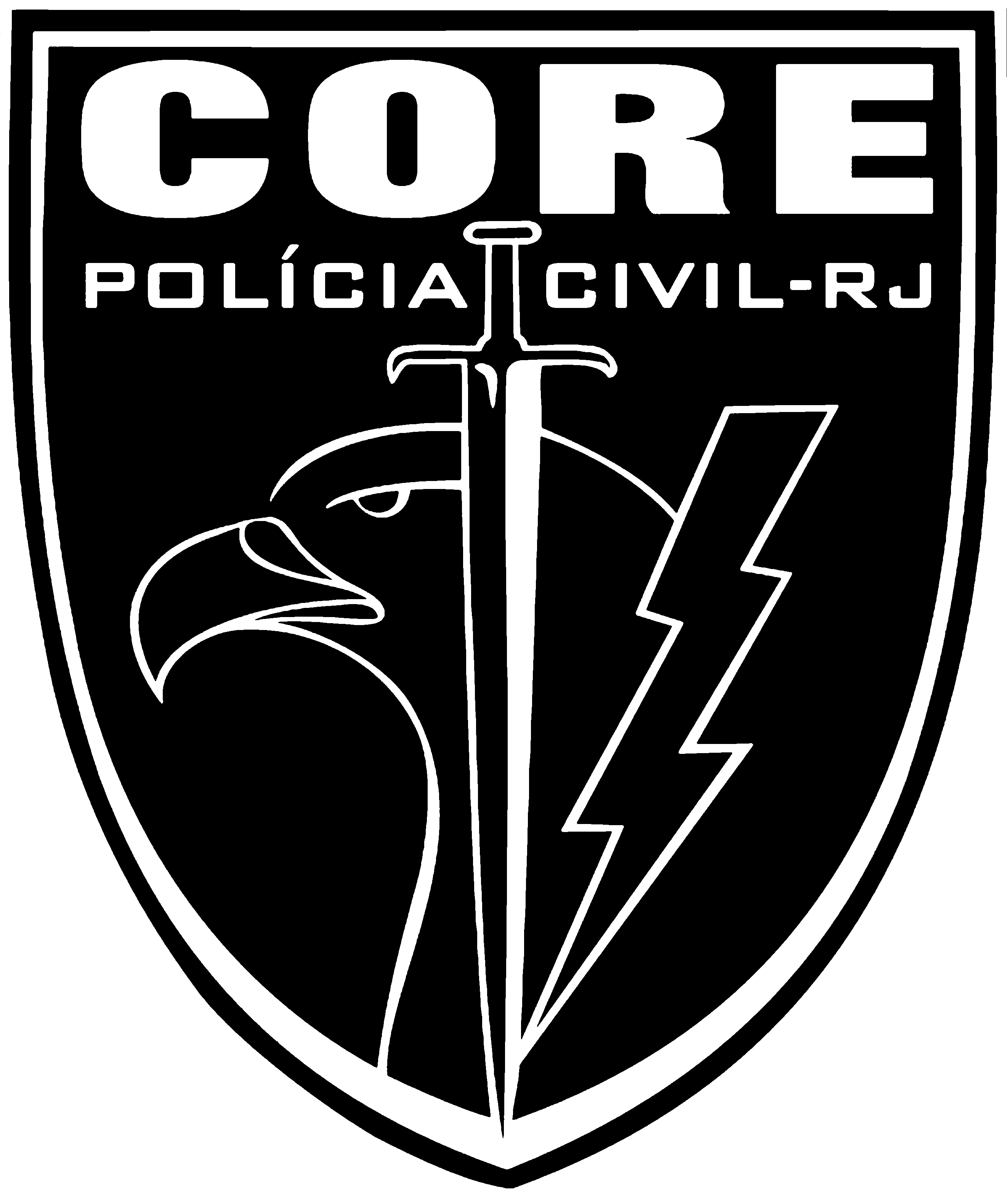 Coat of arms of CORE - Rio de Janeiro State Civil Police